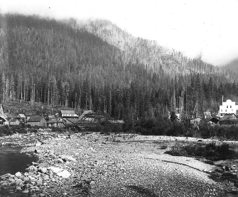 View from the river. Subjects (LCTGM): Cities & towns--Washington (State) Subjects (LCSH): Silverton (Wash.)